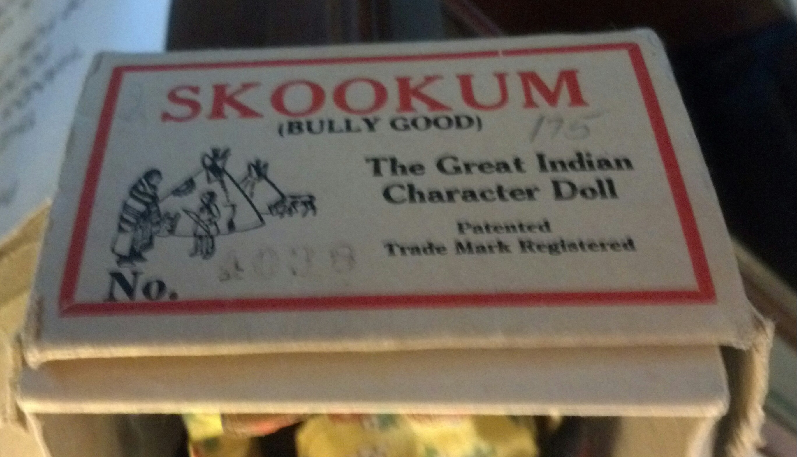 Original label on the box of a Skookum doll, at an antique shop in Martinez, California. Photo by Jim Heaphy (Cullen328).